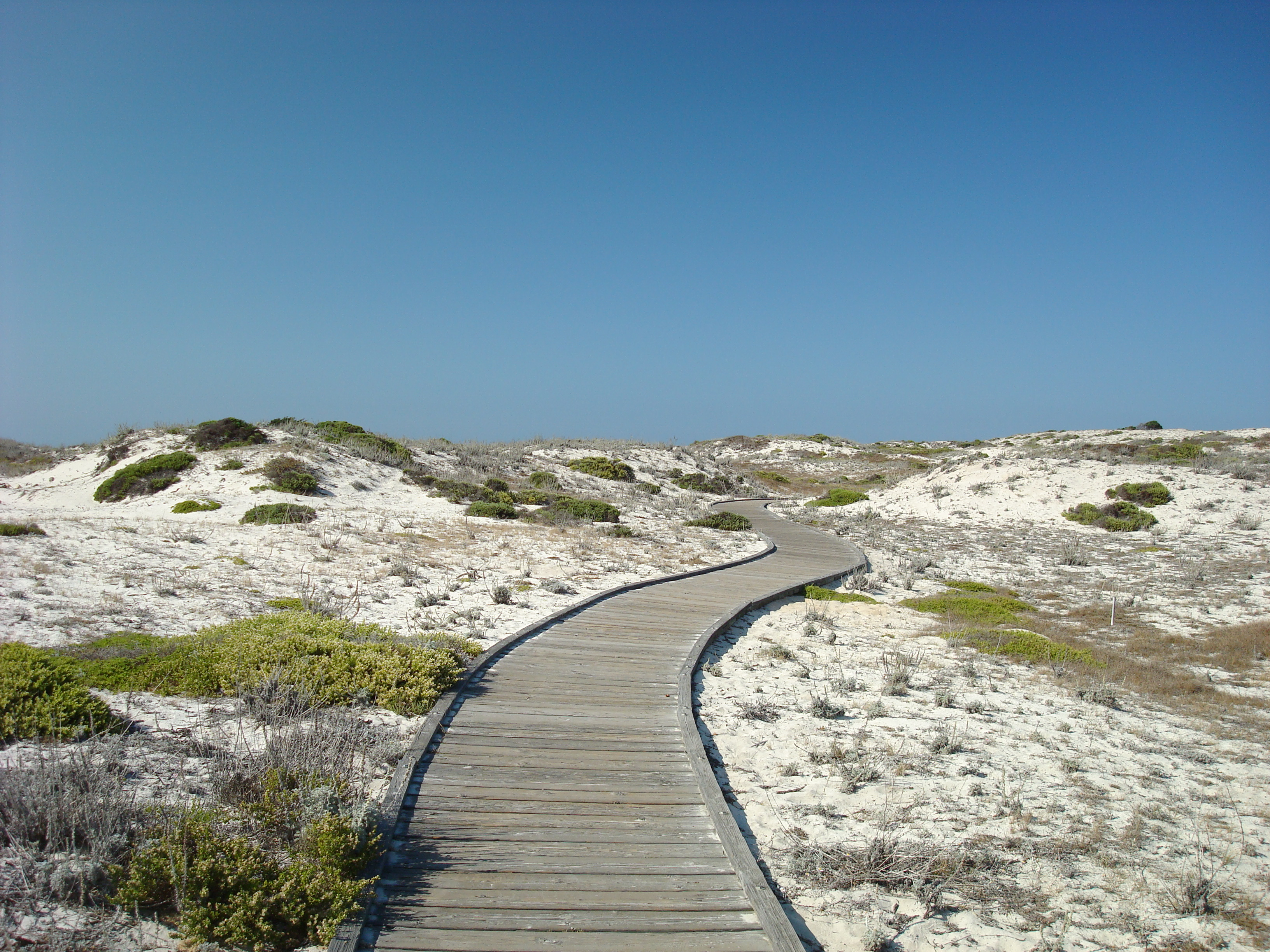 I seem to have a lot of shots looking down a trail. Asilomar State Park, CA